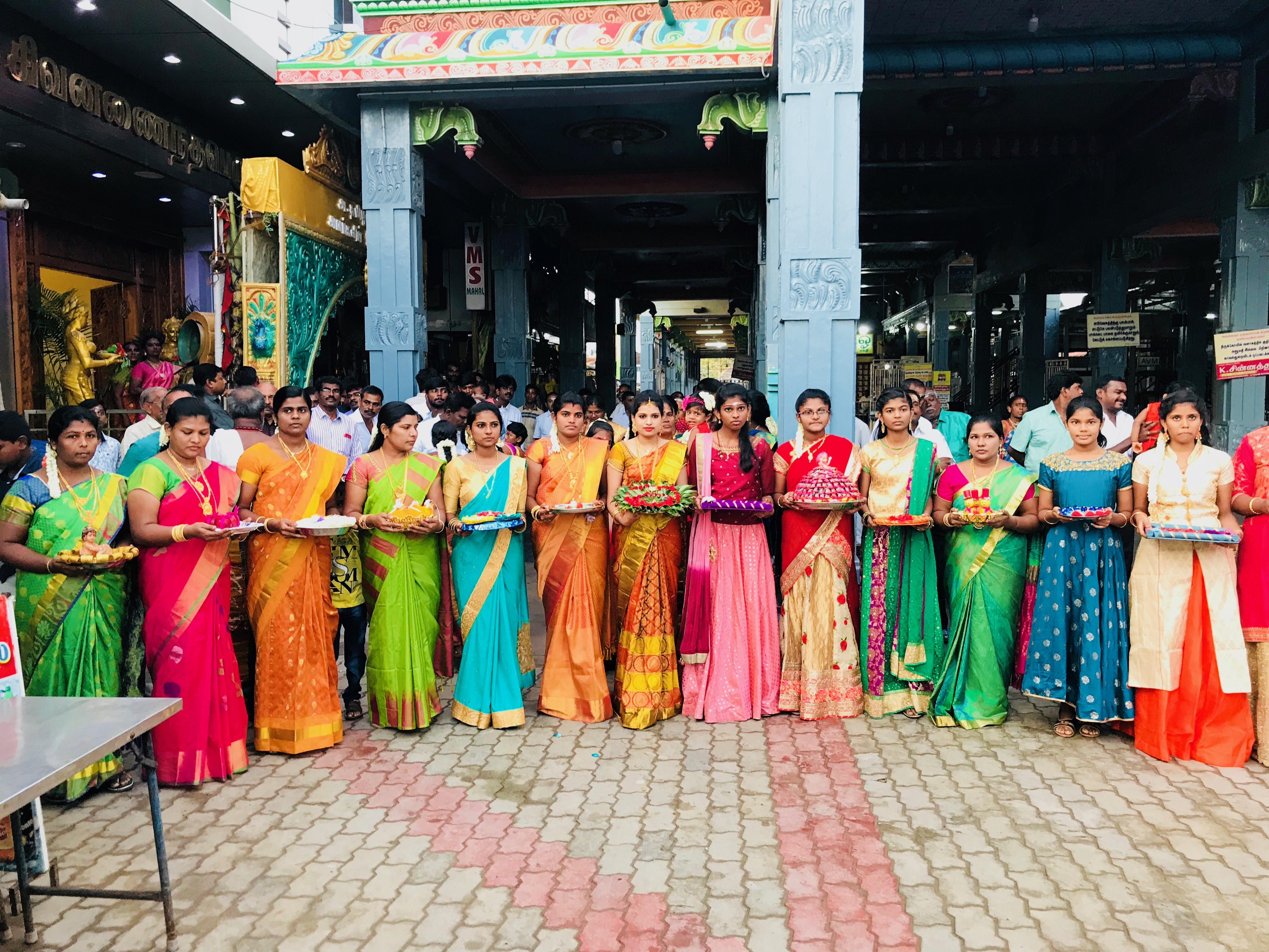 This photo has been taken in the country: India